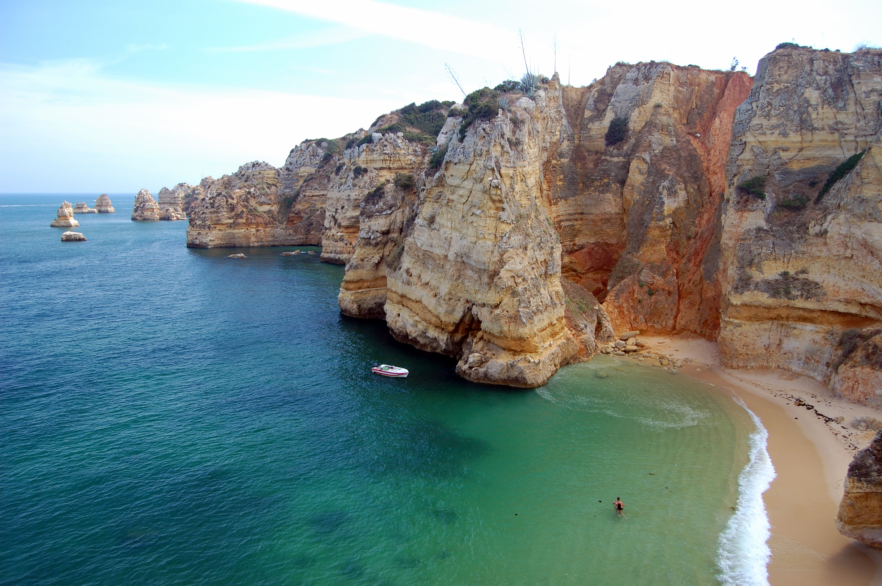 Praia da Dona Ana near Lagos, Algarve, Portugal.